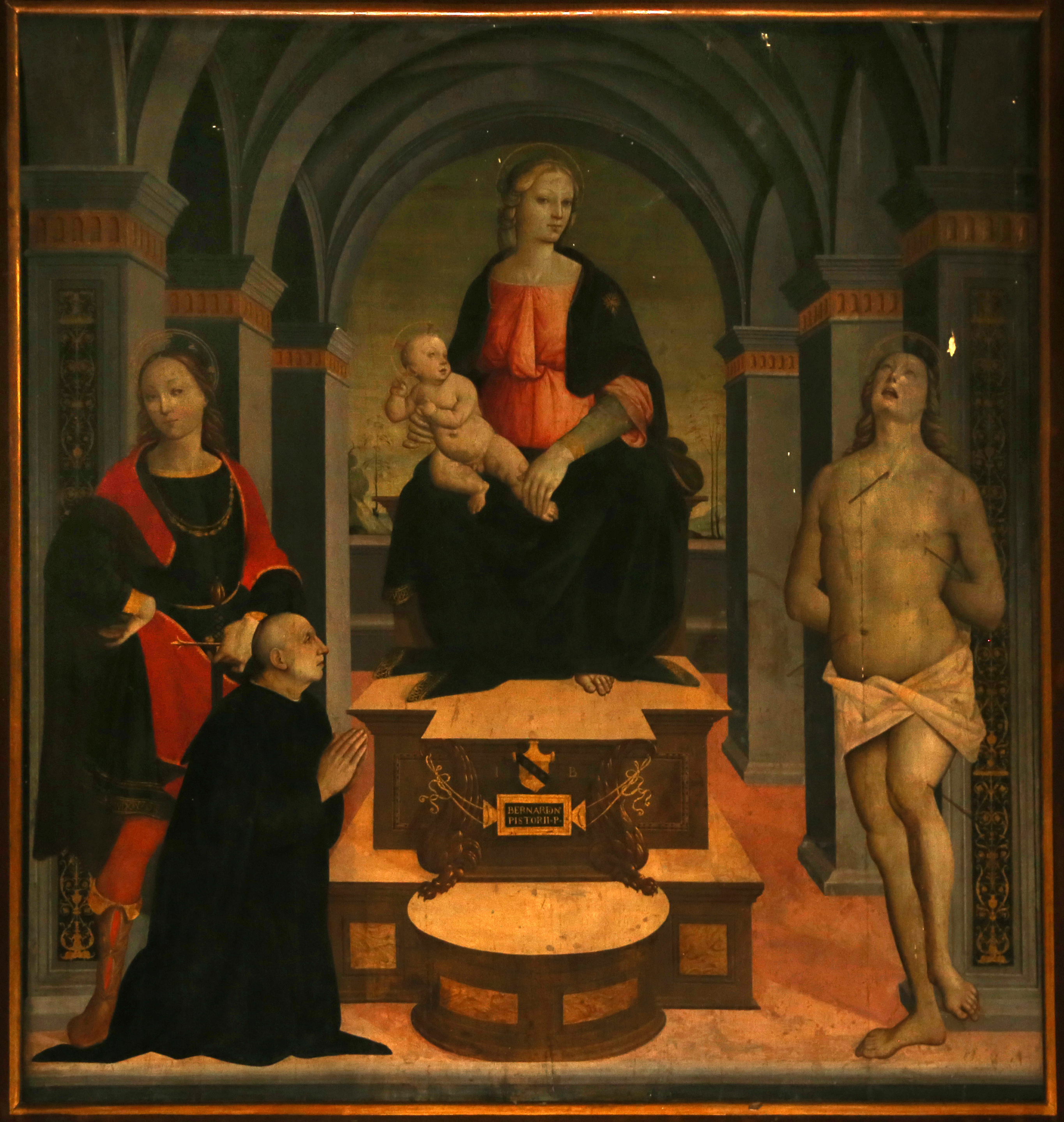 Chiesa di San Vitale (Pistoia)